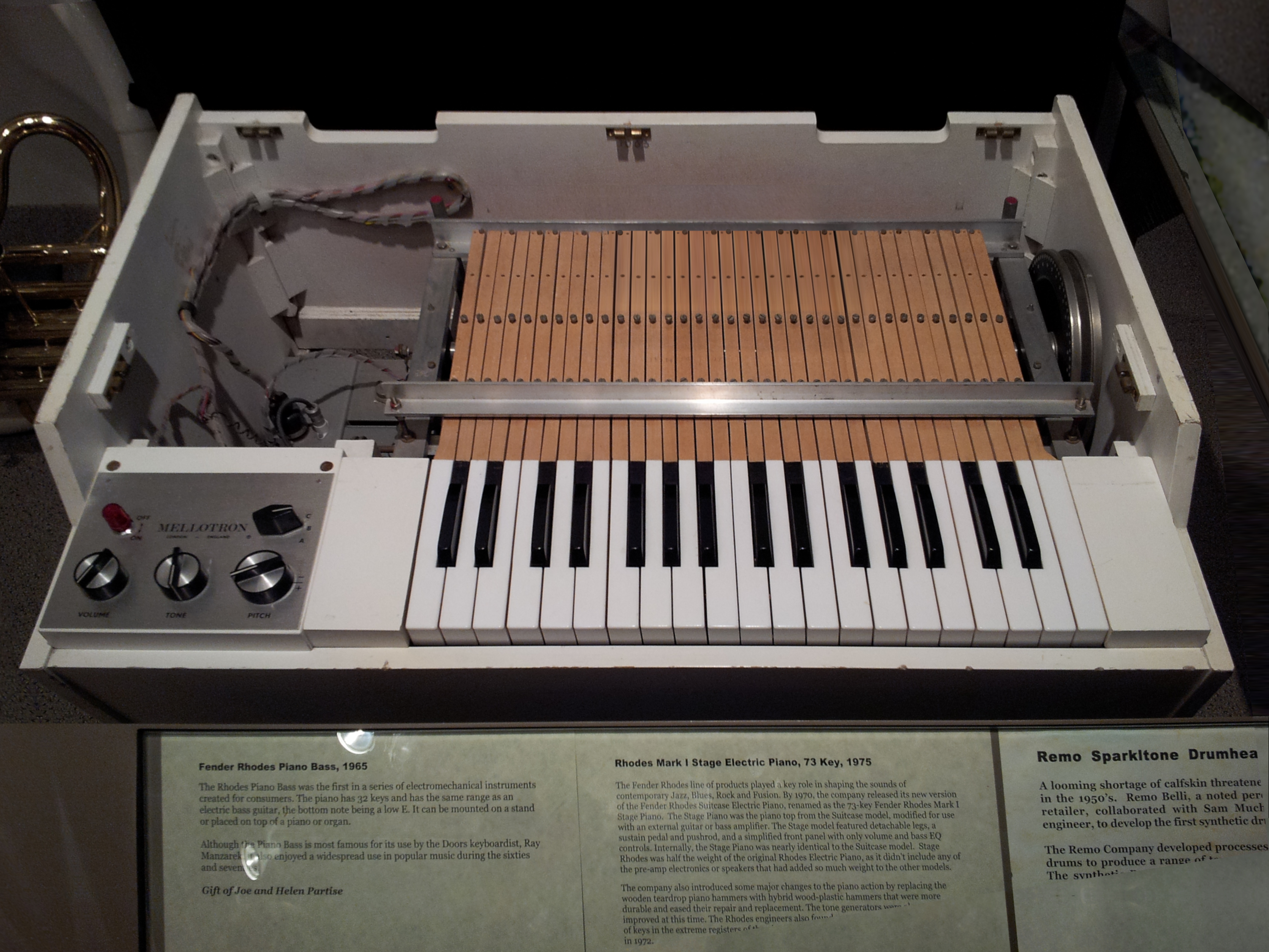 Mellotron, Museum of Making Music Edit rotated to correct the horizontal inclination erased a warning plate stated "PLEASE DO NOT TOUCH"